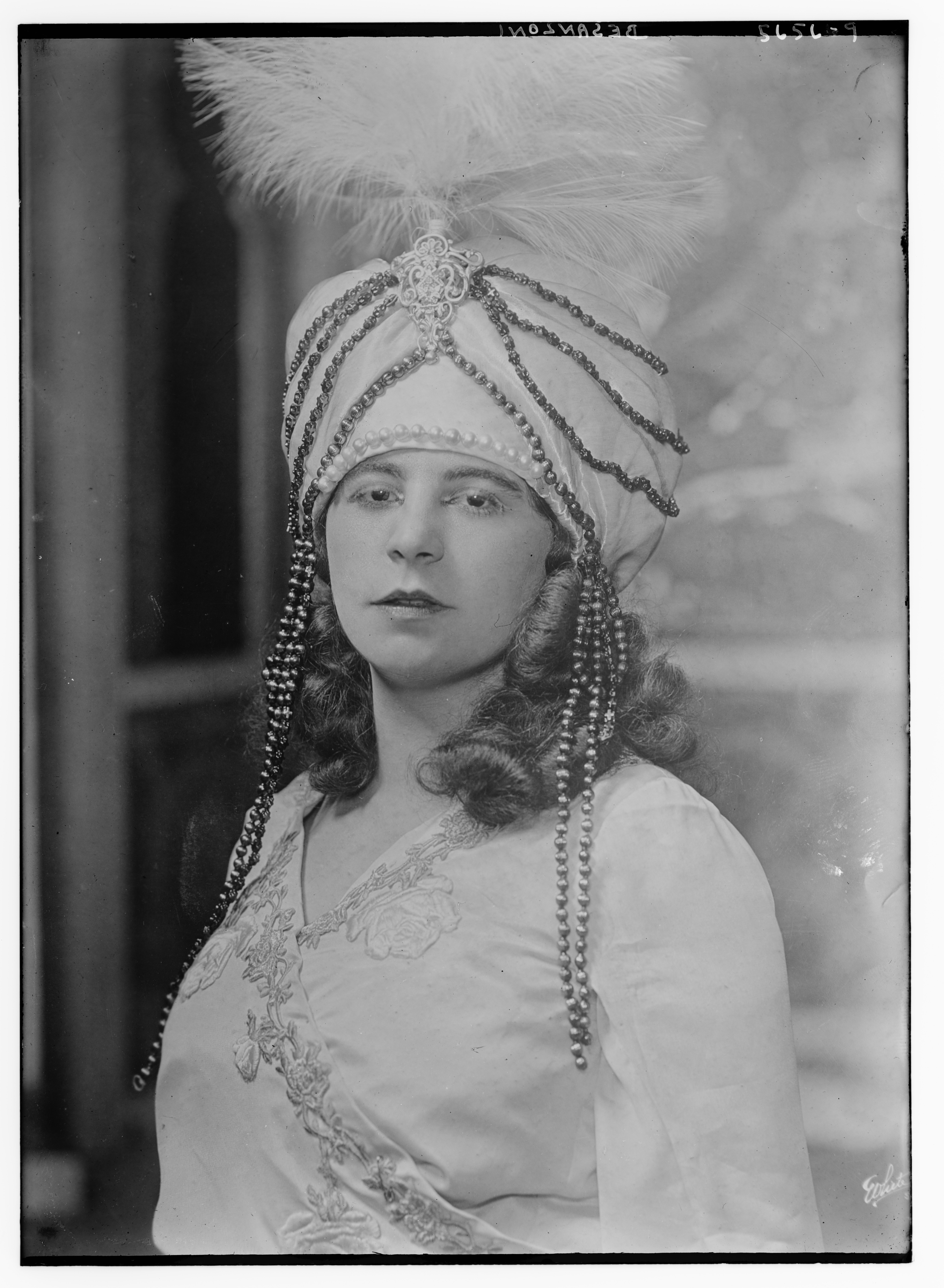 Title: Besanzoni Abstract/medium: 1 negative : glass ; 5 x 7 in. or smaller.